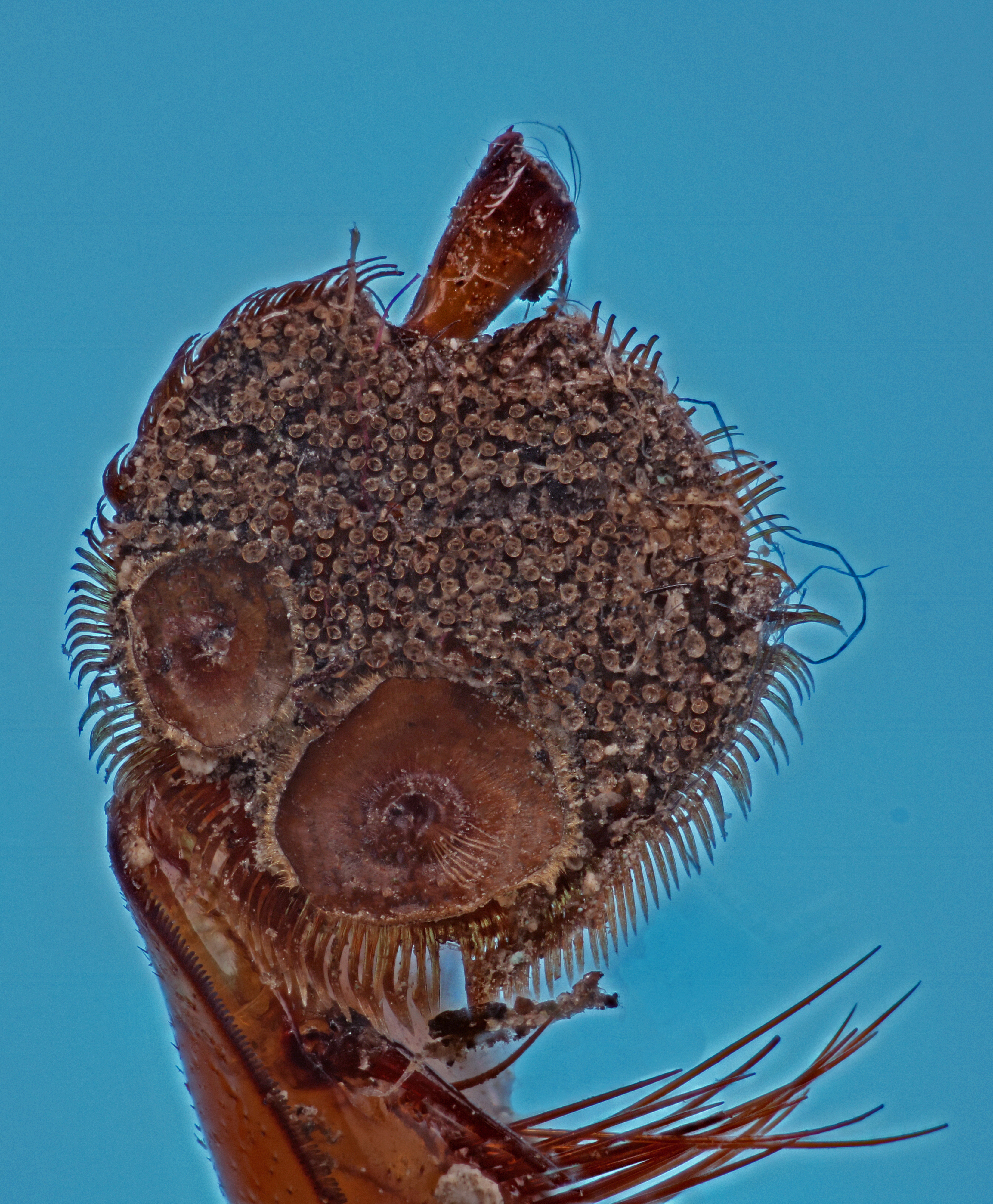 Ventral view of a great diving beetle's (Dytiscus marginalis) front leg. The structures seen are mating cups, which, in addition to other uses, work like suction cups to hold the female during mating.